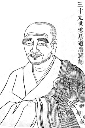 Yunju Daoying (830-902), a Tang Dynasty Buddhist monk. Woodcut, Ching dynasty; caption:「三十九世雲居道膺禪師」